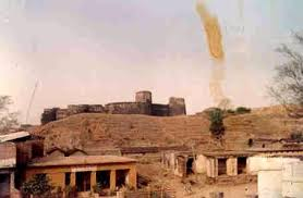 mauranipur